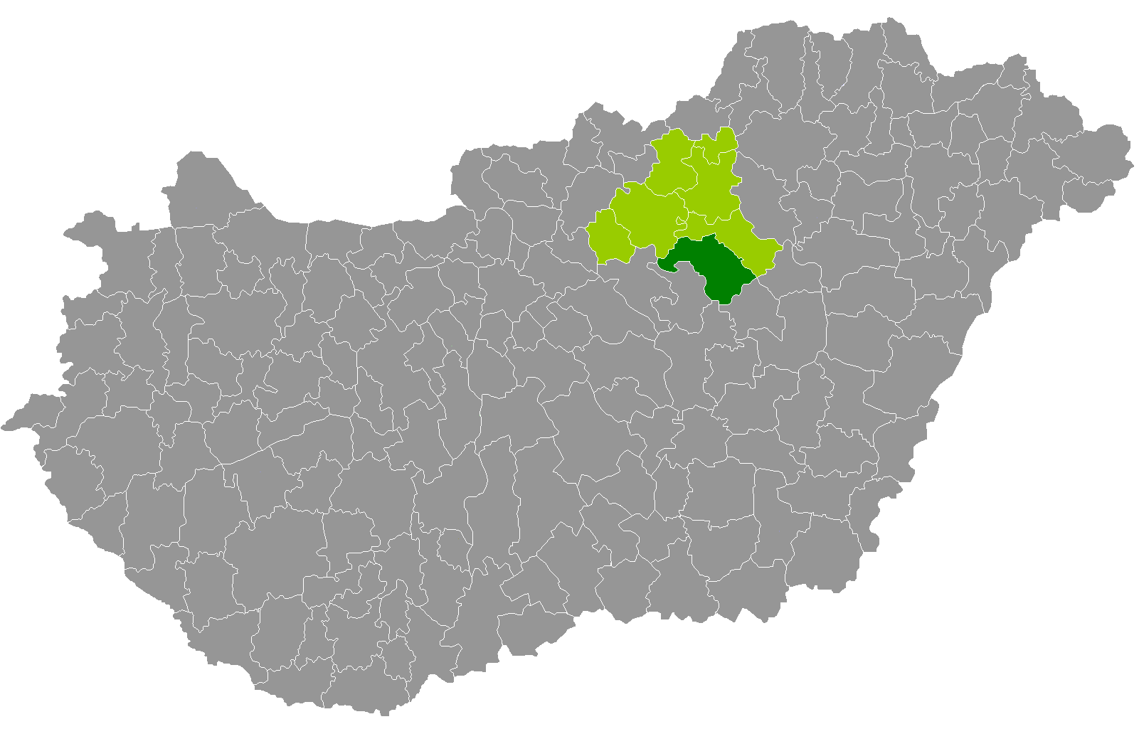 Location of Heves District, Heves, Hungary